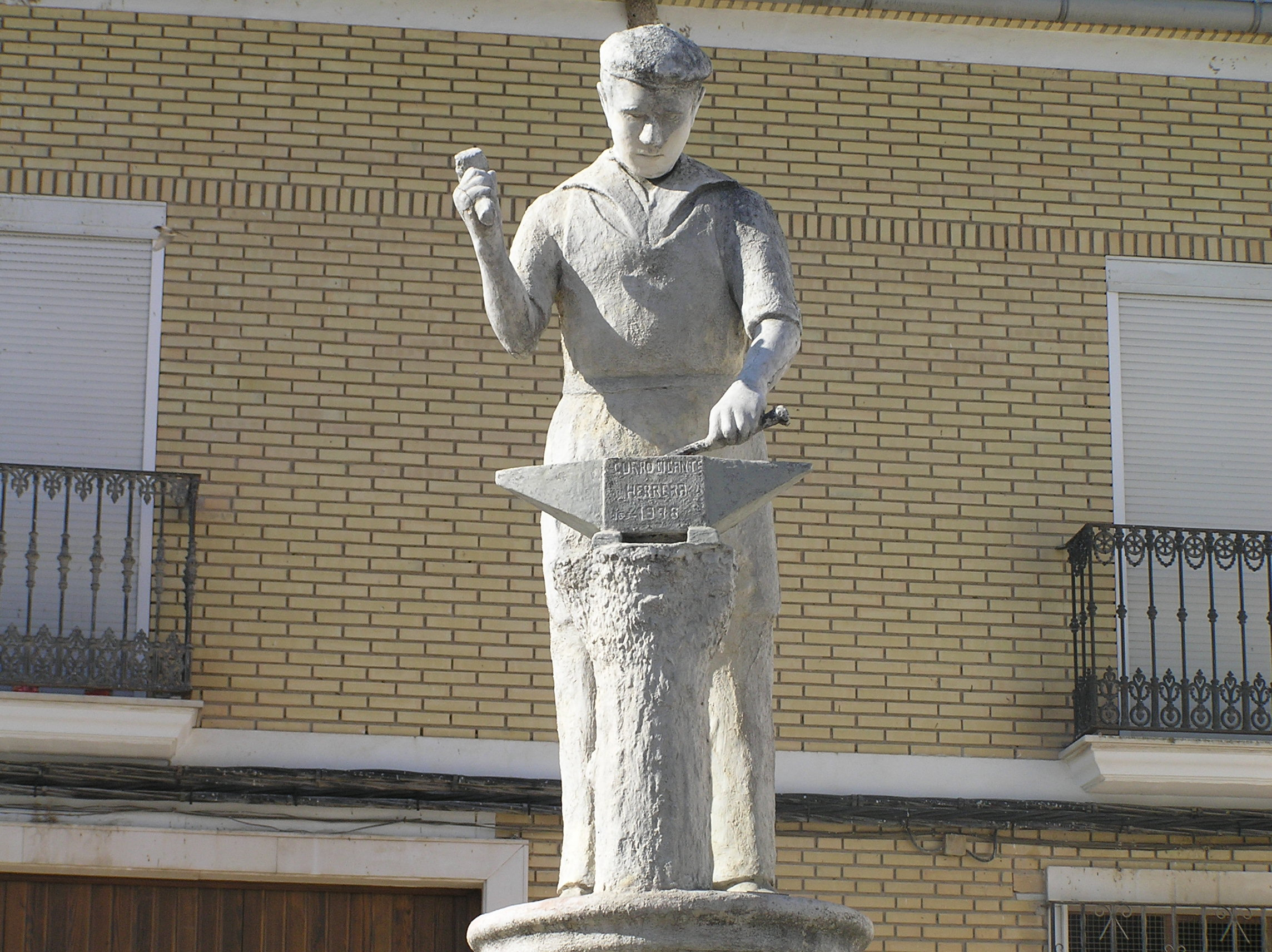 statue blacksmith of Herrera (Sevilla)